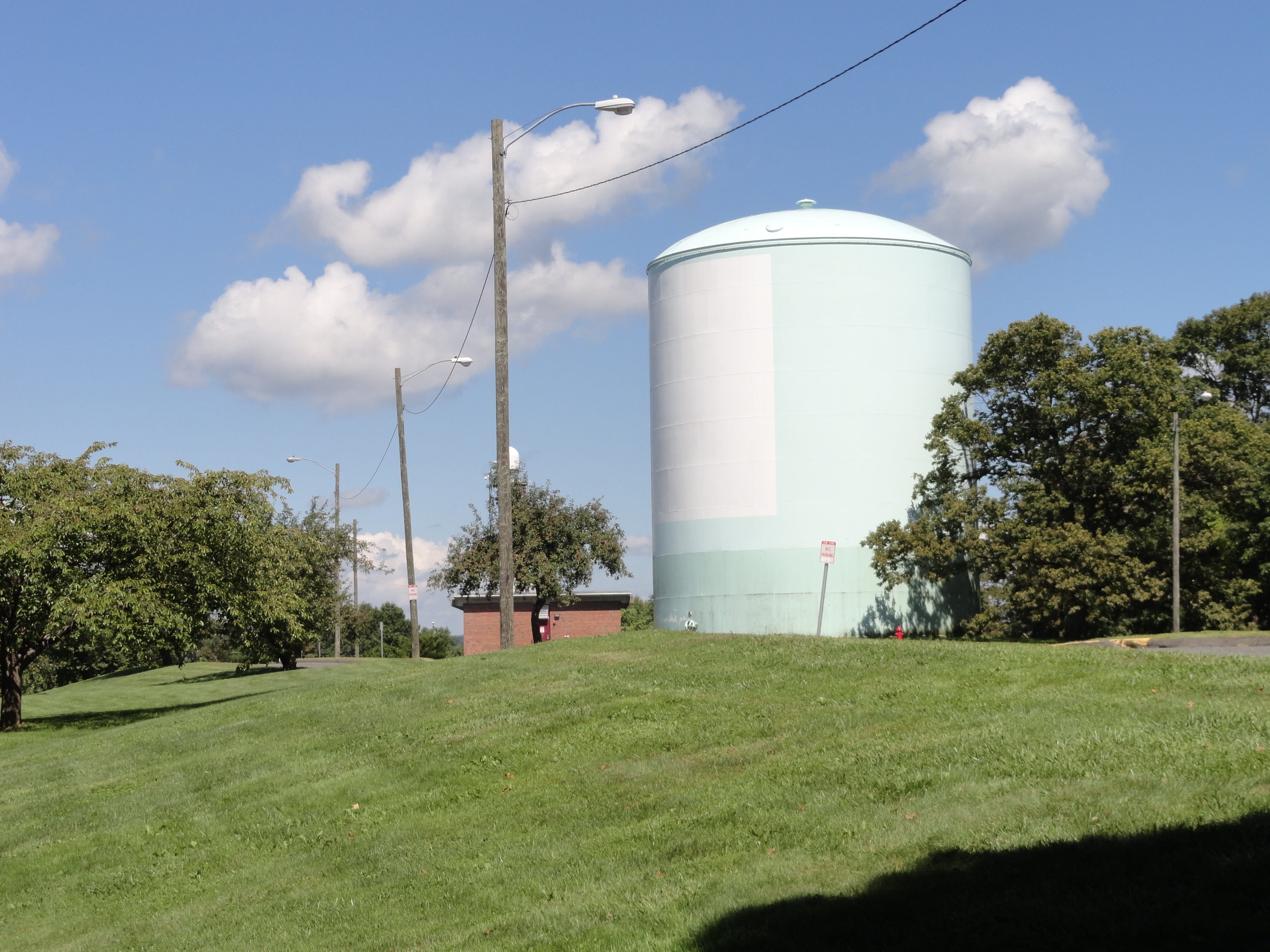 A watertower at the University of Massachusetts Amherst. The white part used to have the Sam the Minuteman painted on it, until it was painted over, pre-2010.